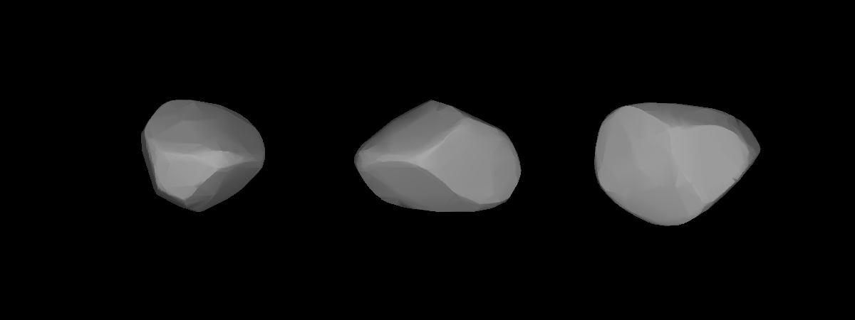 A three-dimensional model of 188 Menippe that was computed using light curve inversion techniques.